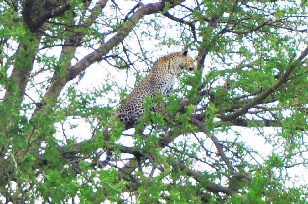 A leopard on the tree in the Serengeti Plain. This photo has been taken by Prof. Chen Hualin.